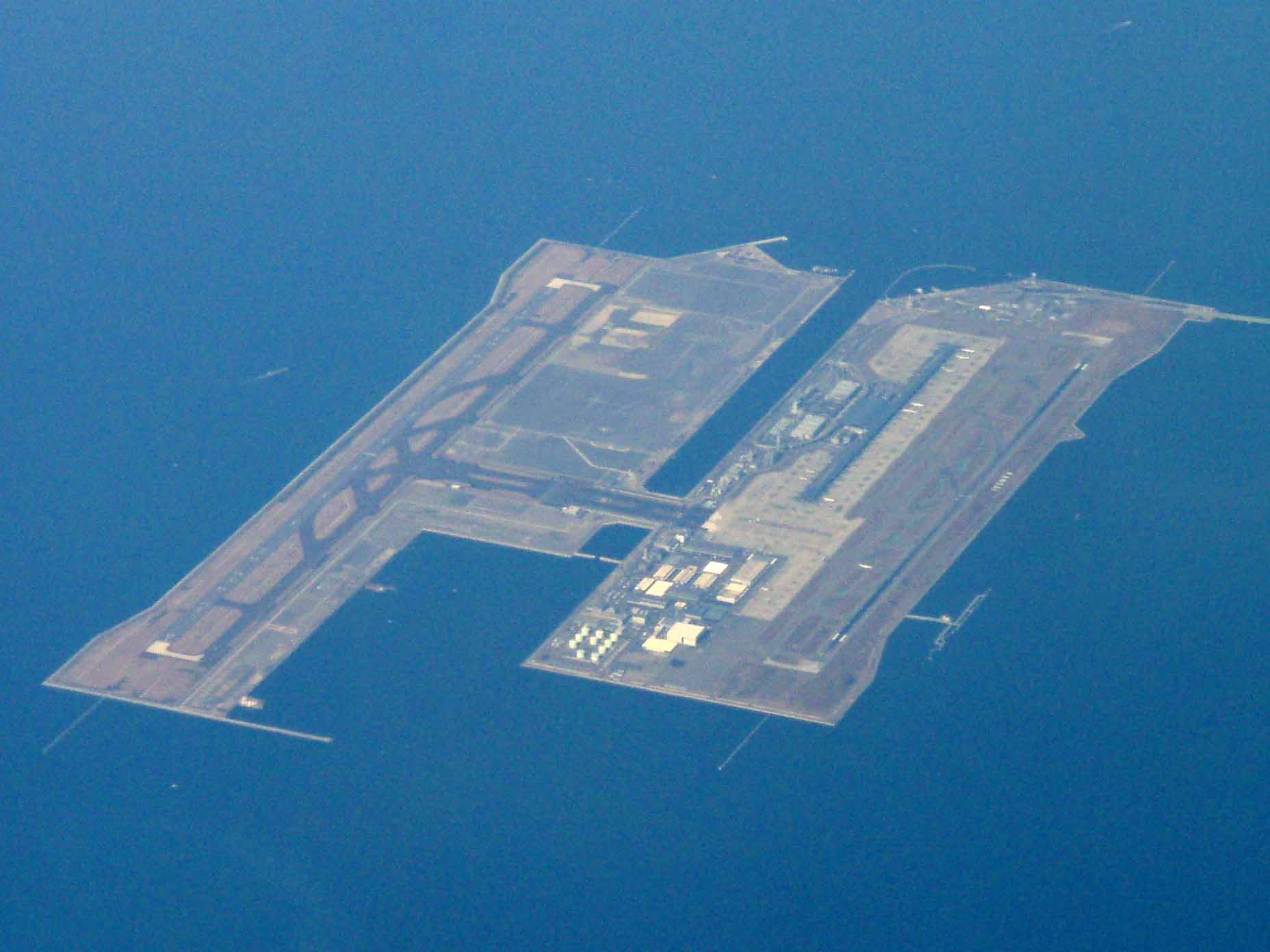 Aerial Photograph of Kansai International Airport at JAPAN in 2007.